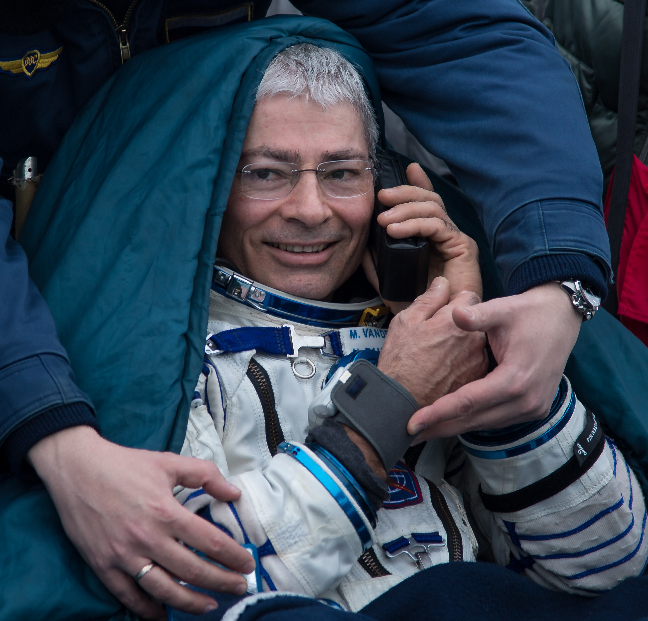 NASA astronaut Mark Vande Hei rests in a chair shortly after he, NASA astronaut Joe Acaba, and Russian cosmonaut Alexander Misurkin landed in their Soyuz MS-06 spacecraft near the town of Zhezkazgan, Kazakhstan on Wednesday, Feb. 28, 2018 (February 27 Eastern time.) Acaba, Vande Hei, and Misurkin are returning after 168 days in space where they served as members of the Expedition 53 and 54 crews onboard the International Space Station.